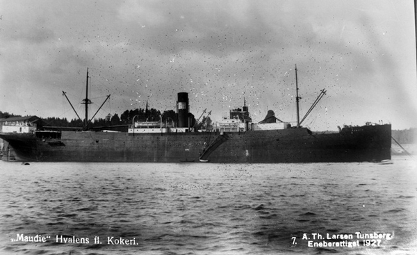 A/S Hvalen's whaling factory "Maudie" (1920)